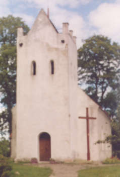 Church in Pieńkowo, Poland